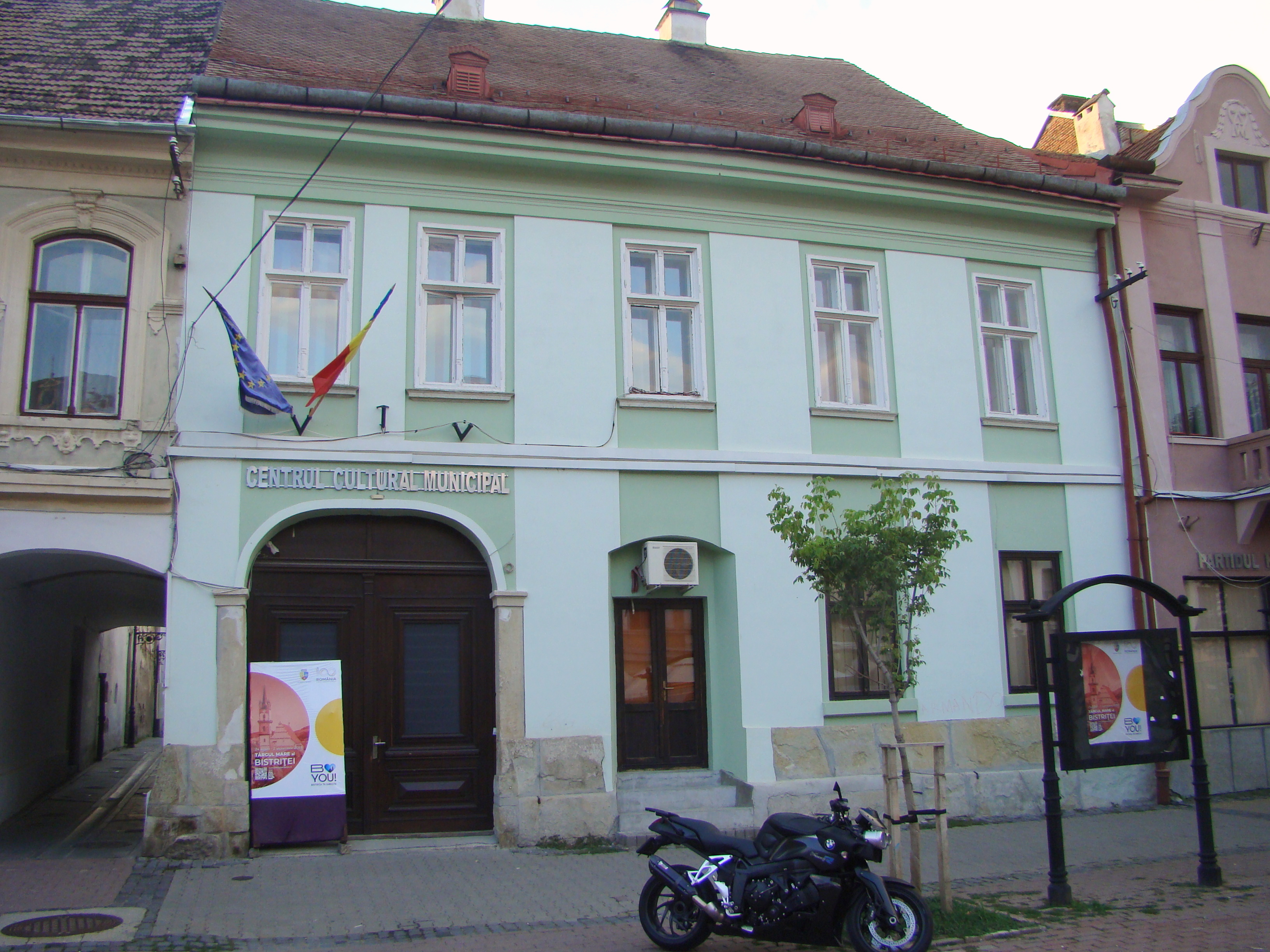 House, historic monument, in Bistrița, Liviu Rebreanu street 23